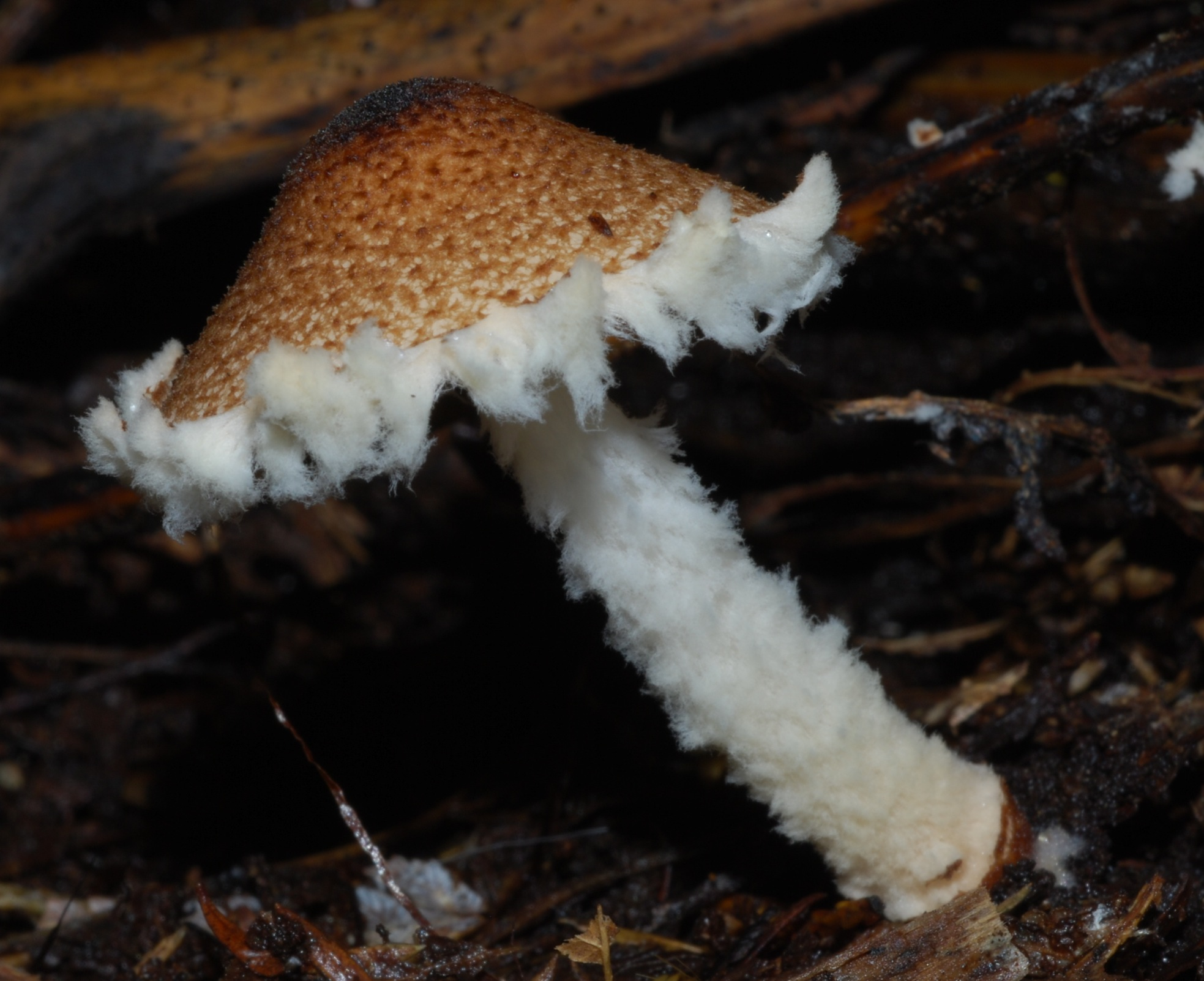 Lepiota magnispora (Murrill) Location: Auckland, New Zealand Notes: This beautiful Lepiota species was found in native New Zealand forest in soil and leaf litter under Kunzea ericoides, Cyathea dealbata and Cyathea medullaris.I am not certain that this is L. magnispora, it was the closest name I could find!Pileus: 20-50mm in diameter. Conic to plane and slightly uplifted with maturity, with a broad umbo. Margin adorned with remnants of a fibrillose partial veil. Colour white with light brown floccose patches.Stipe: 50-100mm long by 5-8mm in diameter. Even to slightly enlarged at the base, pruinose. Colour dingy white.Lamellae: Attachment free. Close to subdistant. Margin eroded. Colour white.The spores are a good match for L. magnispora in size and shape but the description I have read mentions that cystidia are absent, these specimens exhibit abundant cheilocystidia!